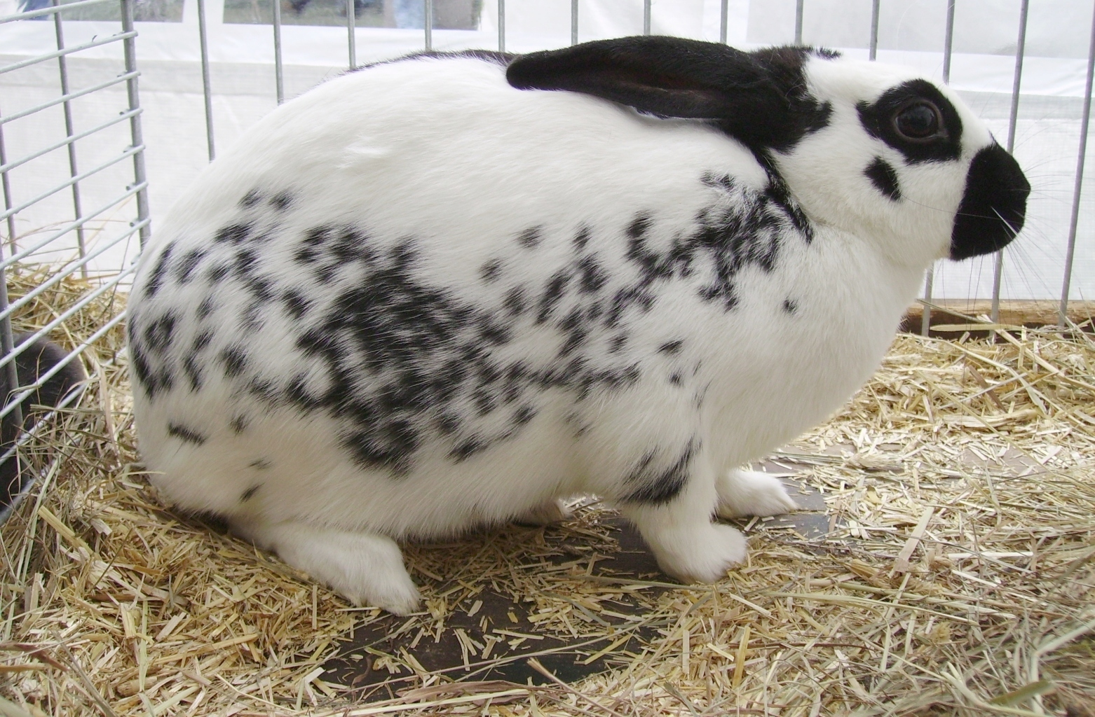 A Dalmatian rex rabbit